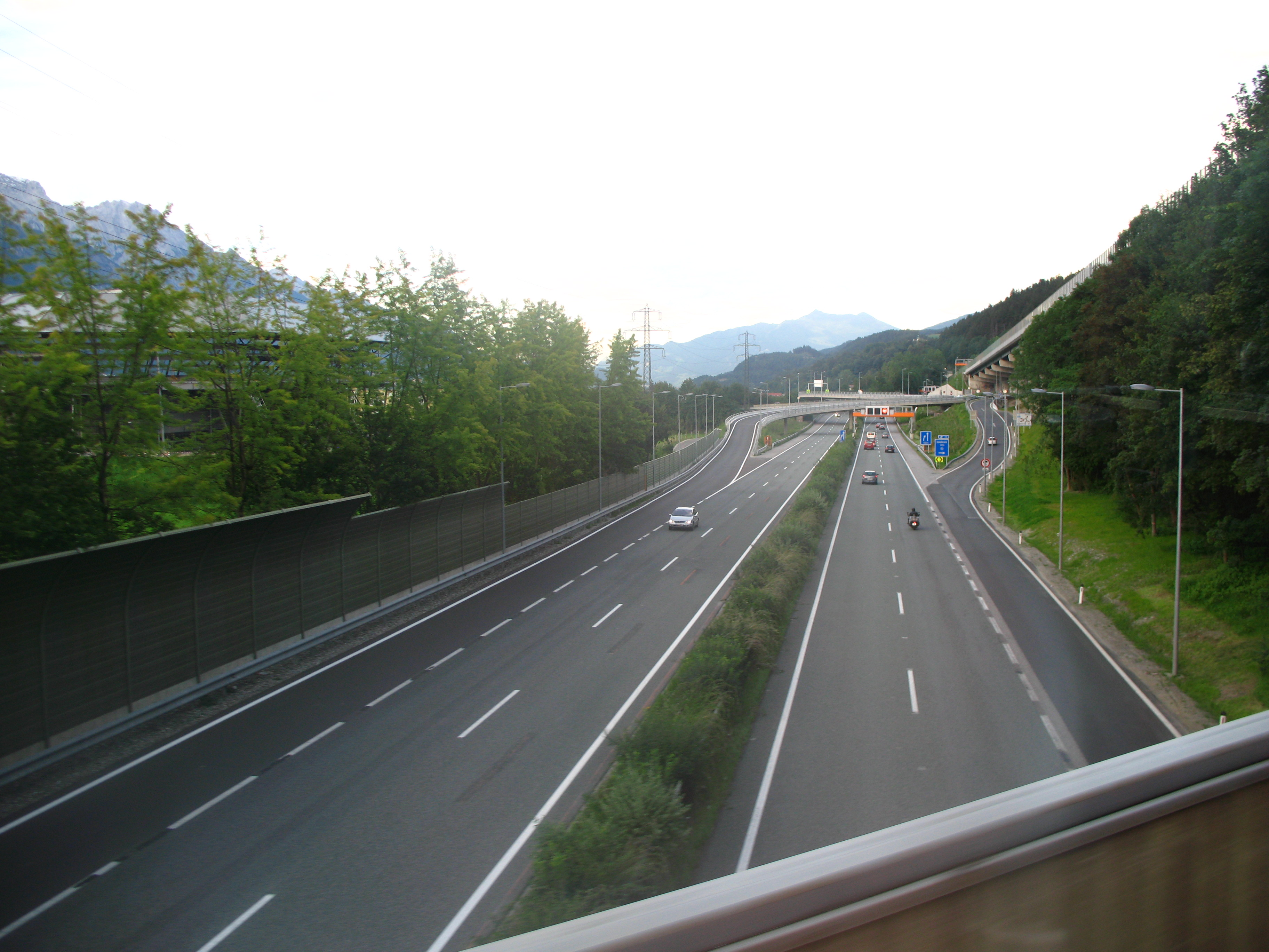 The Inntal Autobahn (A12) viewed from the resort railway, Innsbruck, Austria